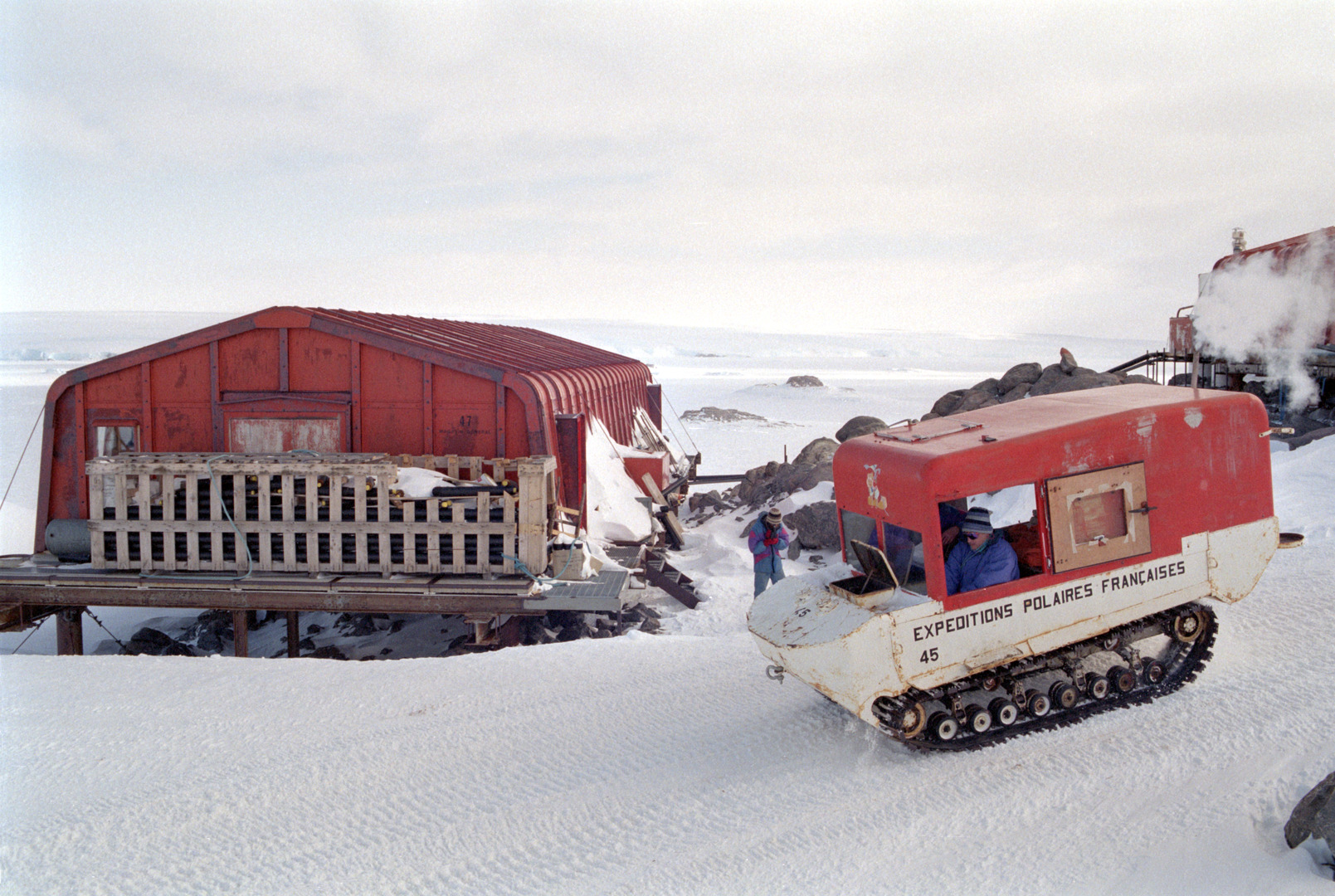 Weasels were WWII tracked vehicles designed for use in snow. The last ones were used by the French Polar Expeditions until 1993.